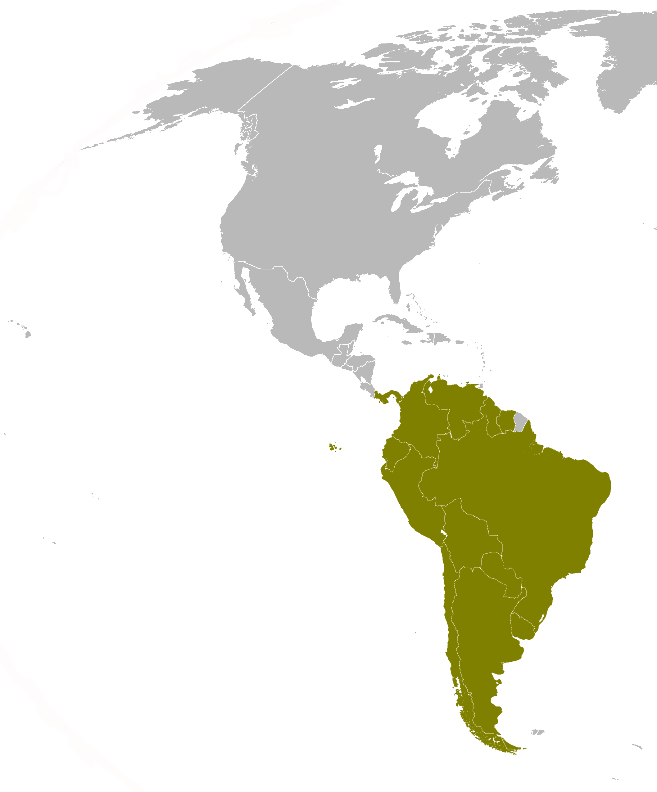 ODESUR members